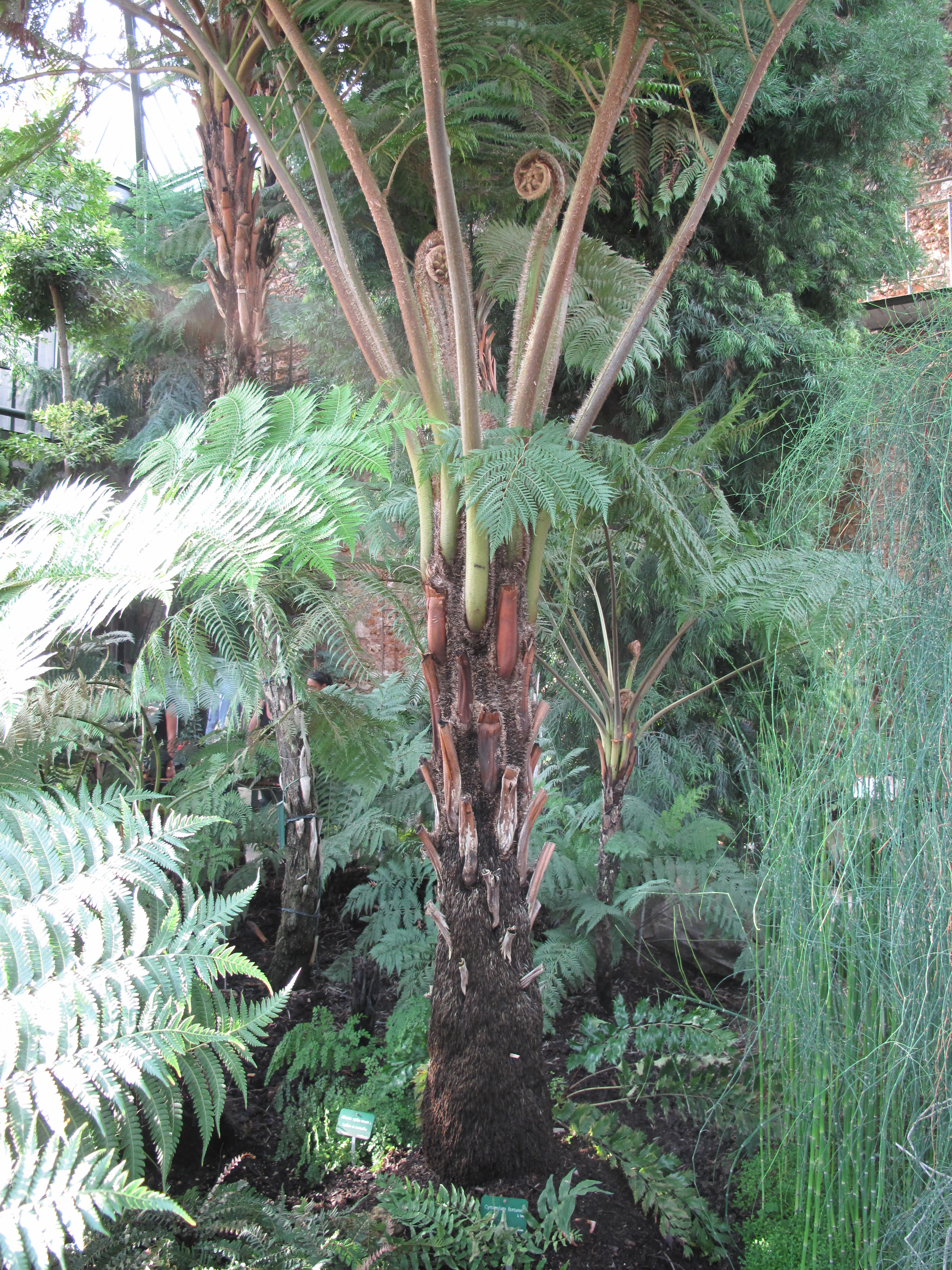 Cyathea robusta in a greenhouse of the Jardin des Plantes in Paris.